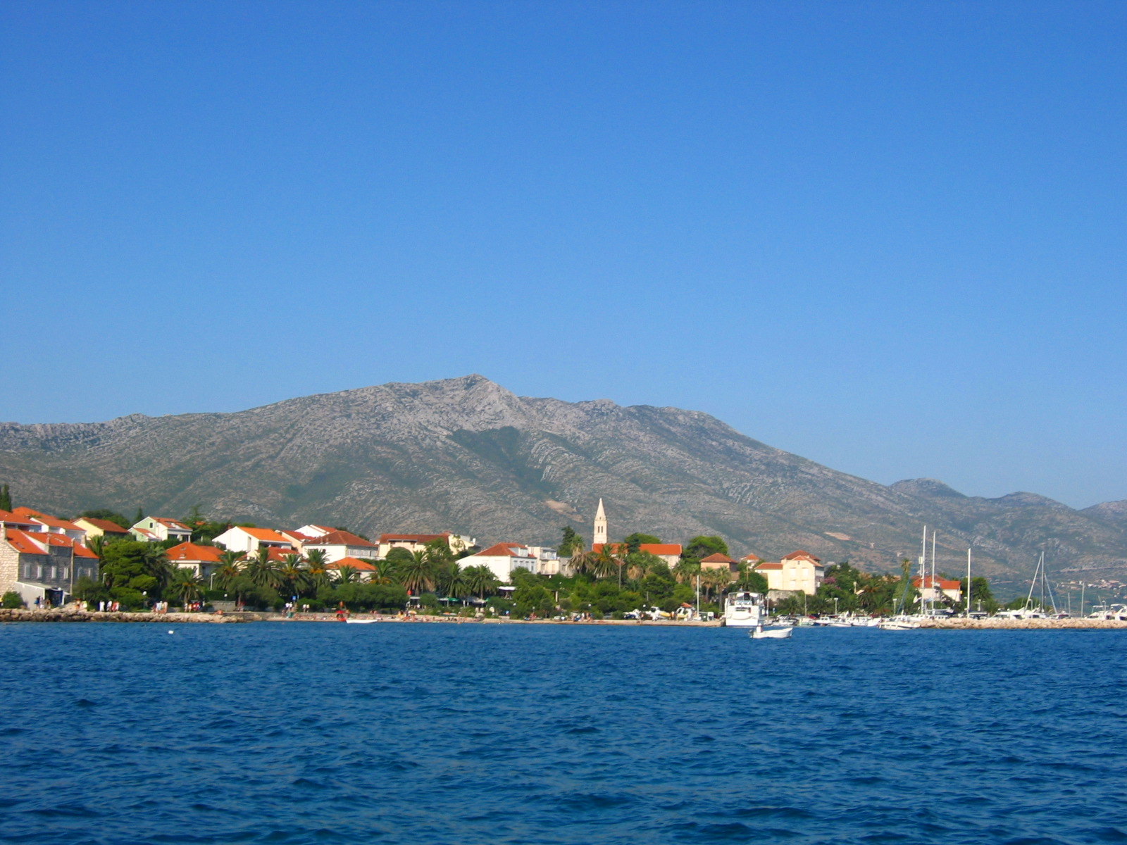 Marina in city of Orebić, Pelješac peninsula, Dalmatia, Croatia